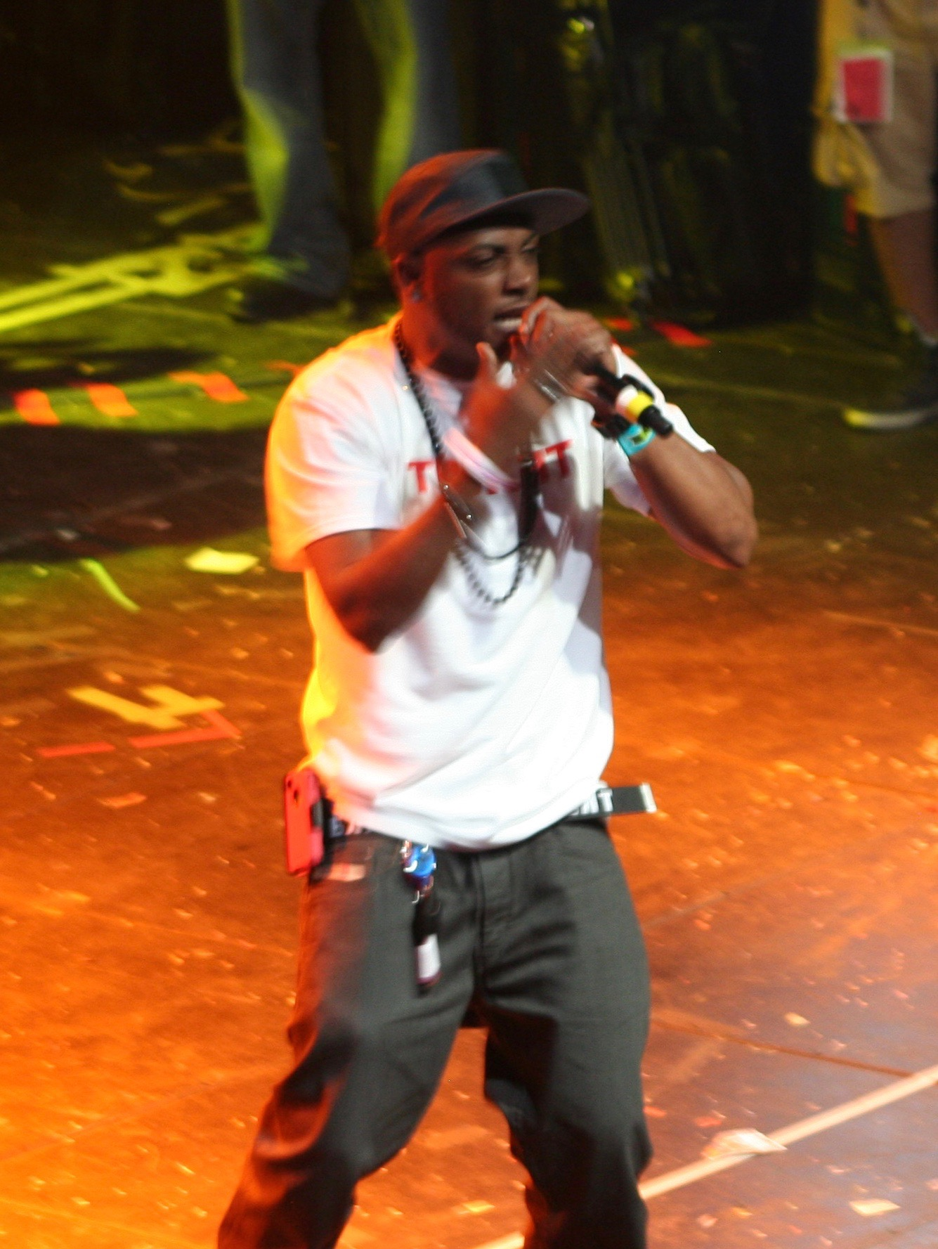 SXSW 2012 - Photo by me.